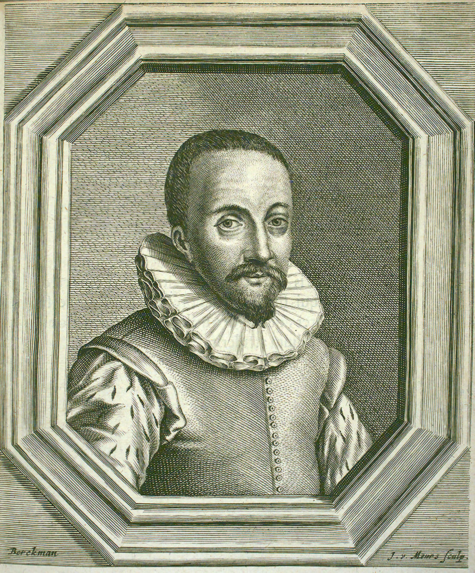 Portrait of Hans Lipperhey